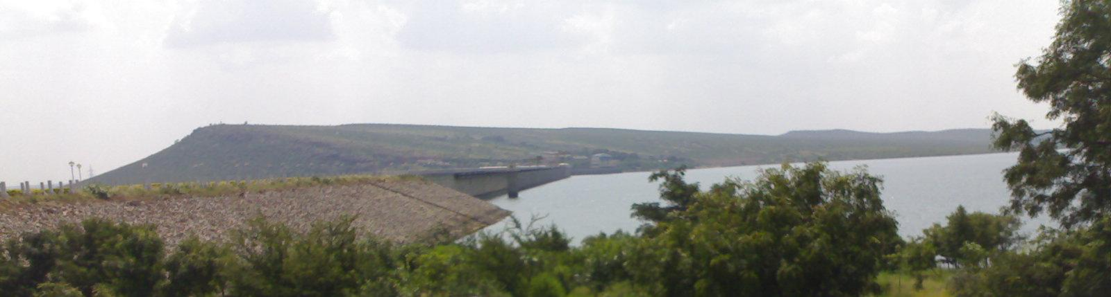 Almatti Source and Author : Manjunath Doddamani, Gajendragad / Hubli, Karnataka(India)